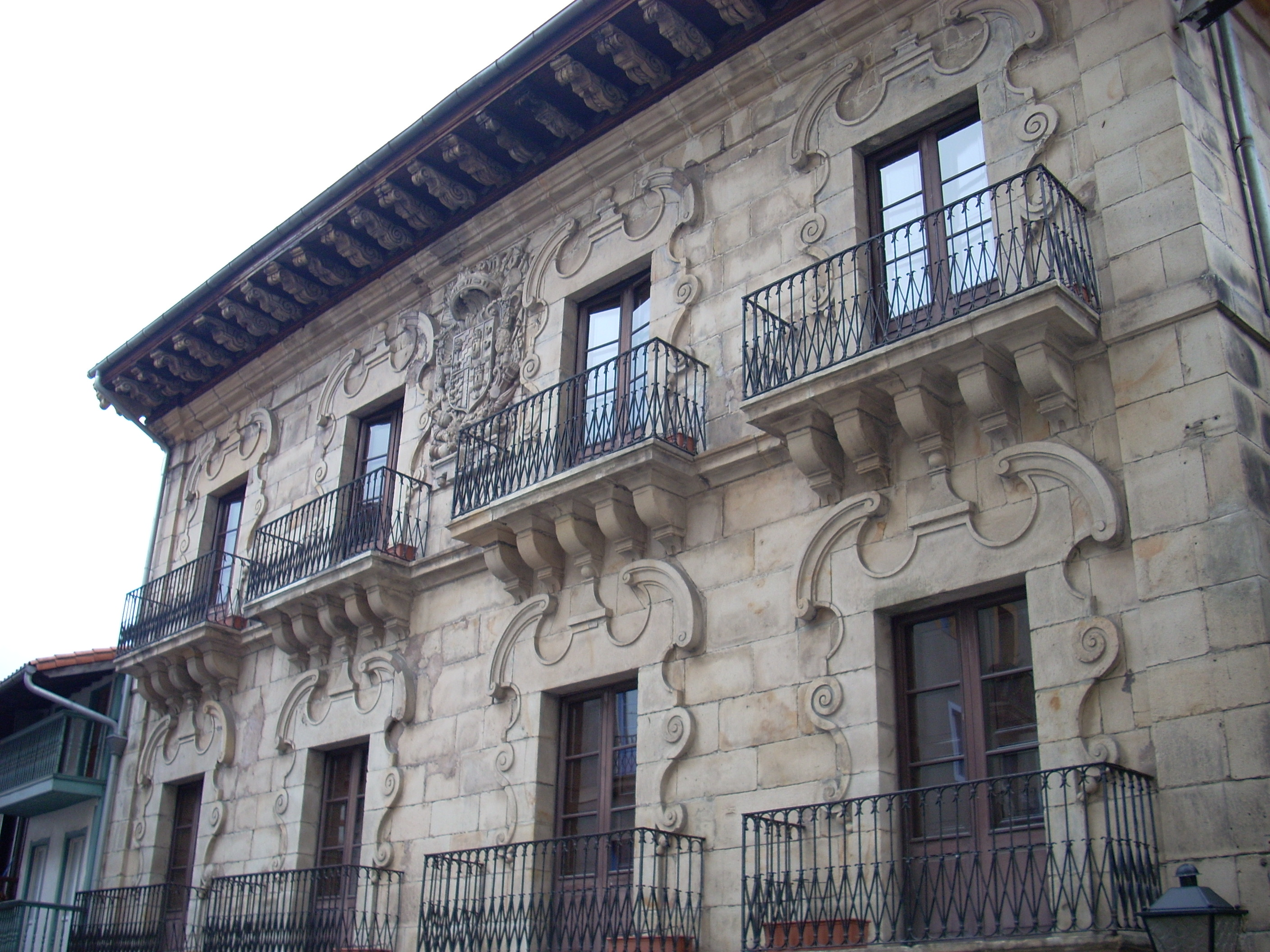 Palacio Zuloaga - Casa de Torre Alta, Hondarribia, Guipúzcoa, Spain